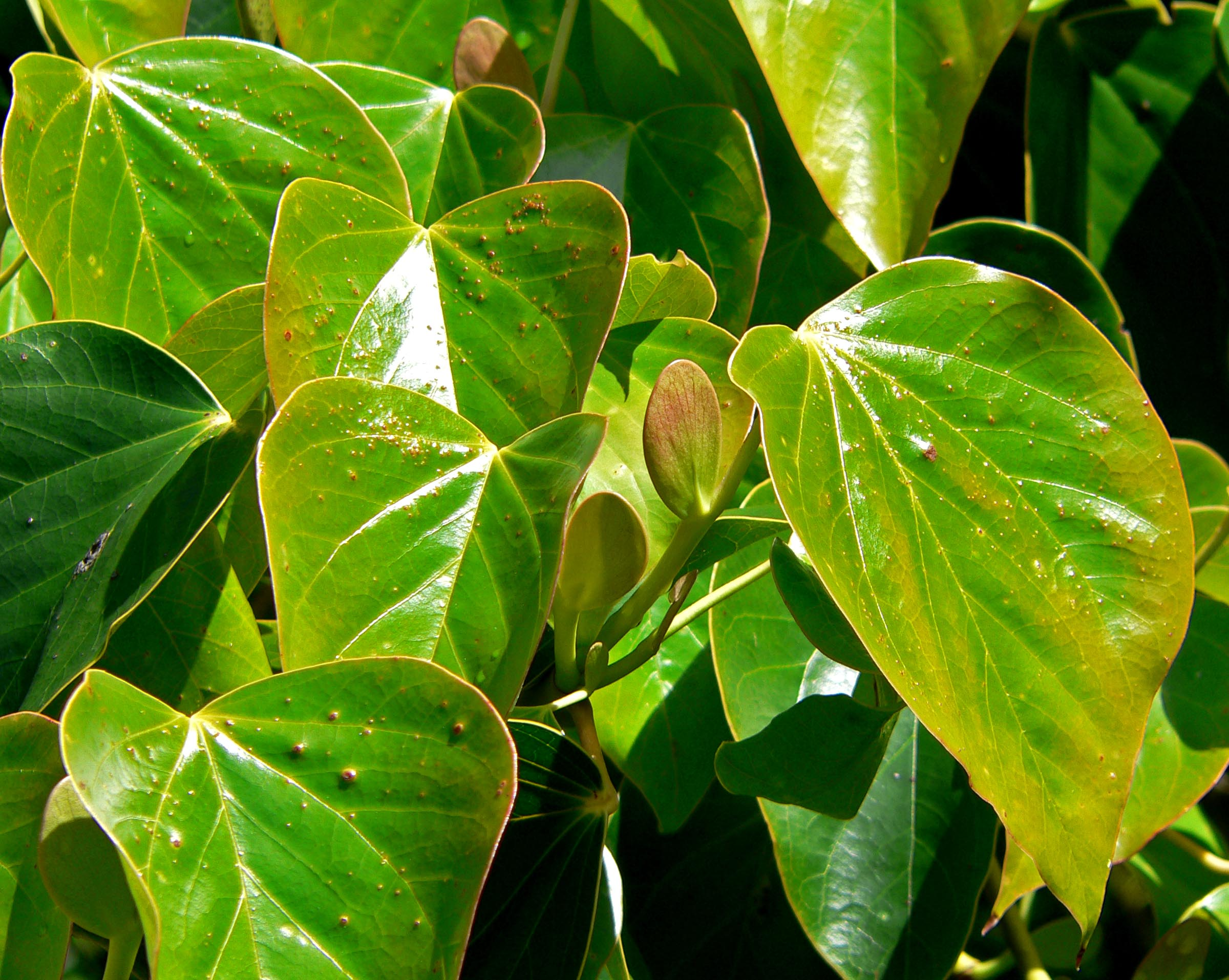 Photo of Exbucklandia populnea at the San Francisco Botanical Garden